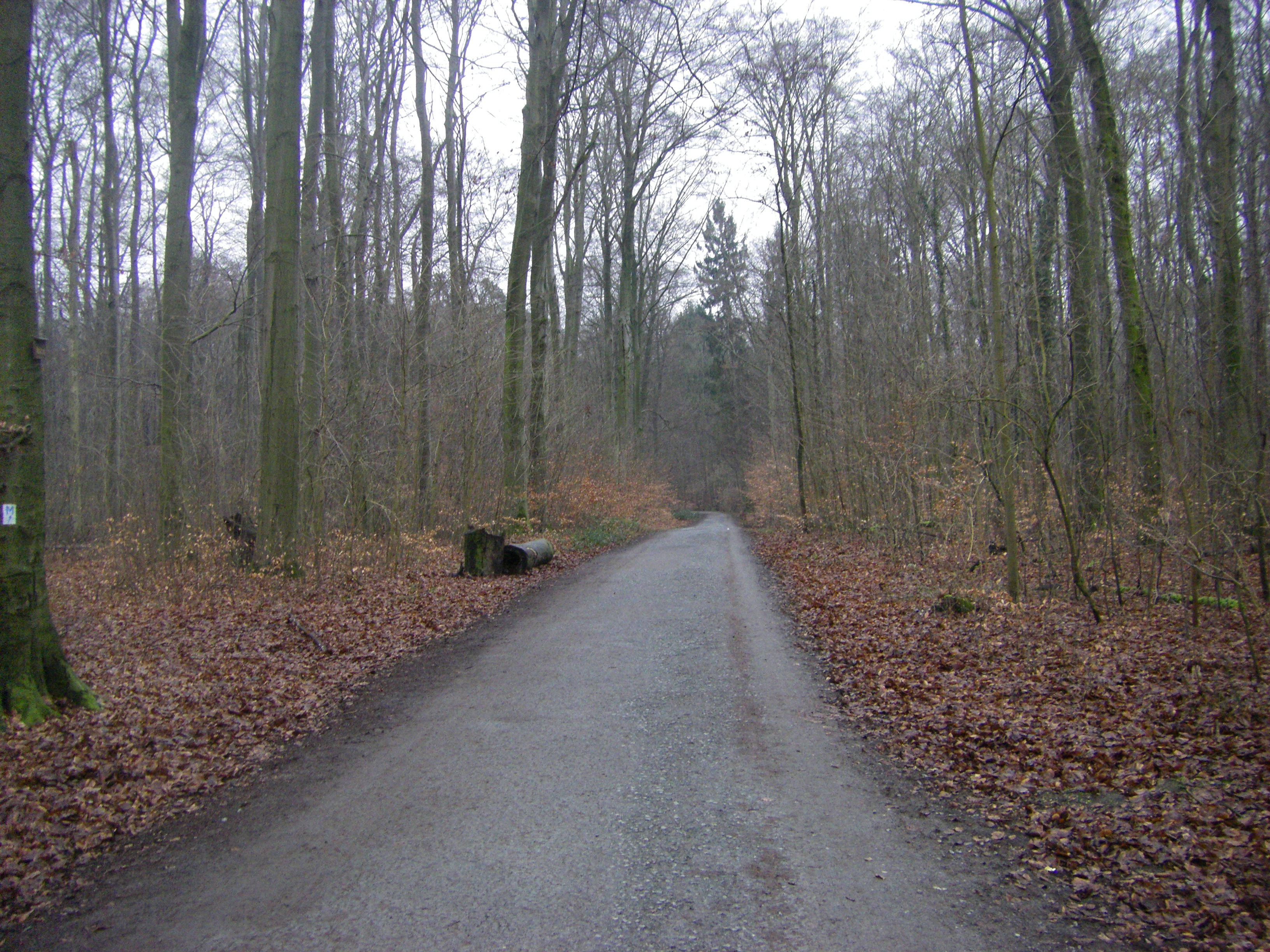 Part of the Wendelsweg in Frankfurt on river Main, Germany, which leads through the city forest.